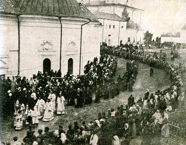 Religious procession with relics of St John of Tobolsk